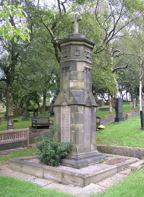 The War Memorial at Denshaw, in Saddleworth, Greater Manchester, England.